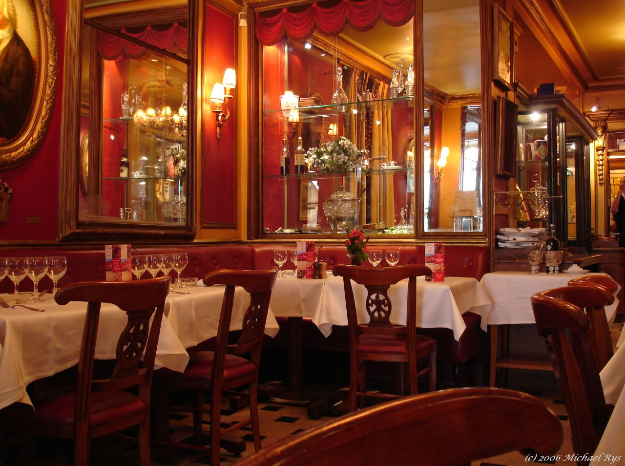 Inside Le Procope, Cafe Procope in Paris